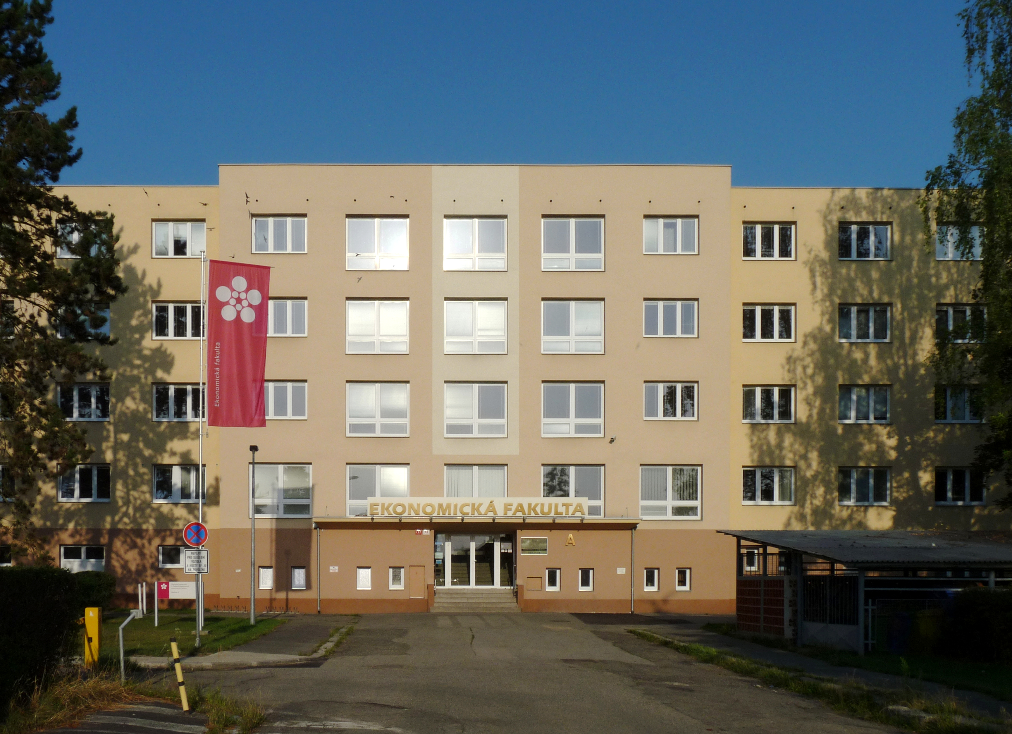 Faculty of Economics of the University of South Bohemia in České Budějovice, Czech Republic.